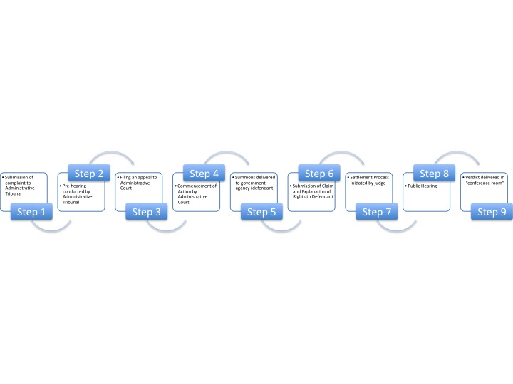 9 steps